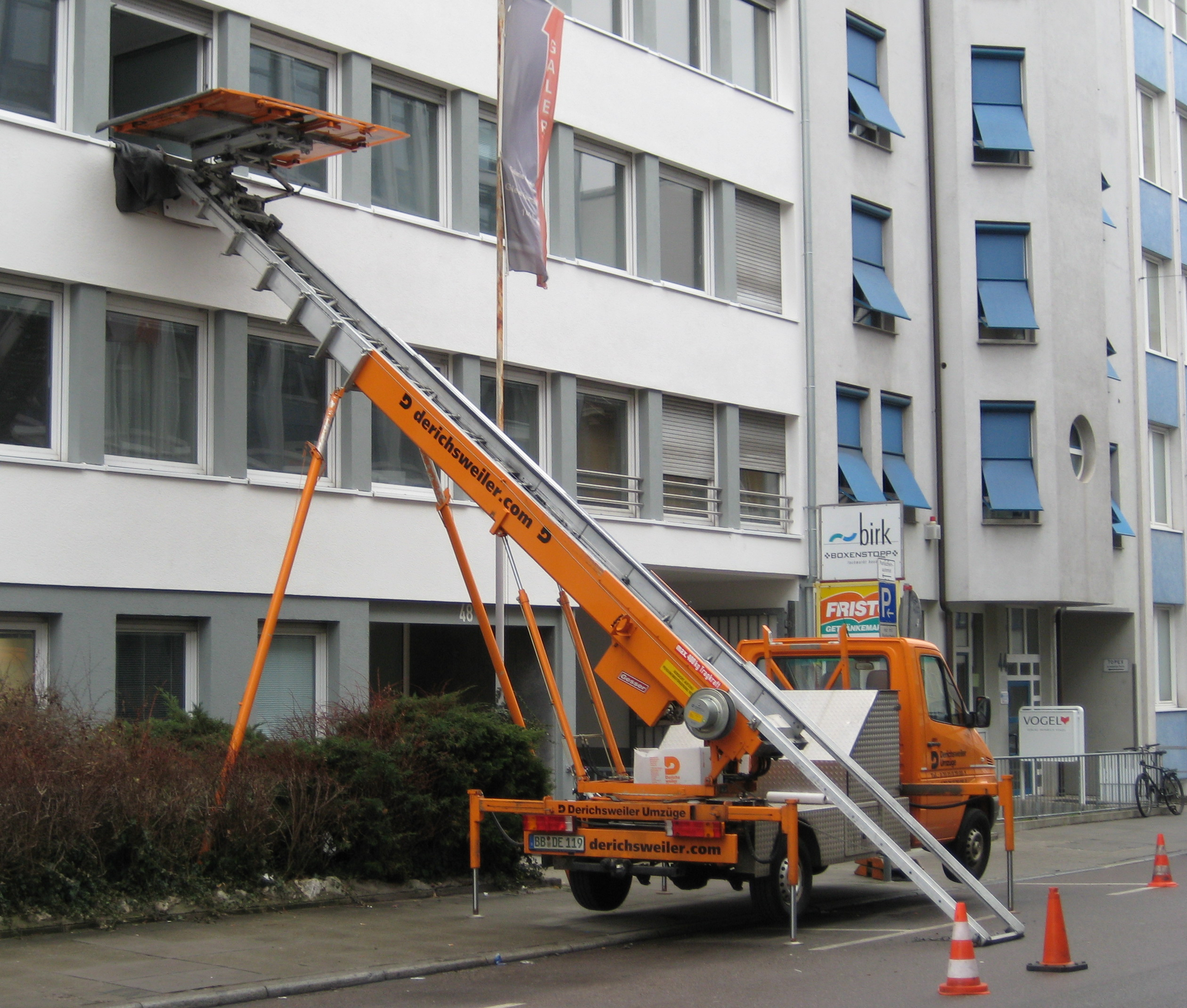 Mobile lift for transporting furniture in Stuttgart, Germany